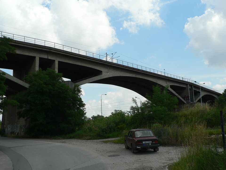 Branický Bridge, Prague, Czech Republic